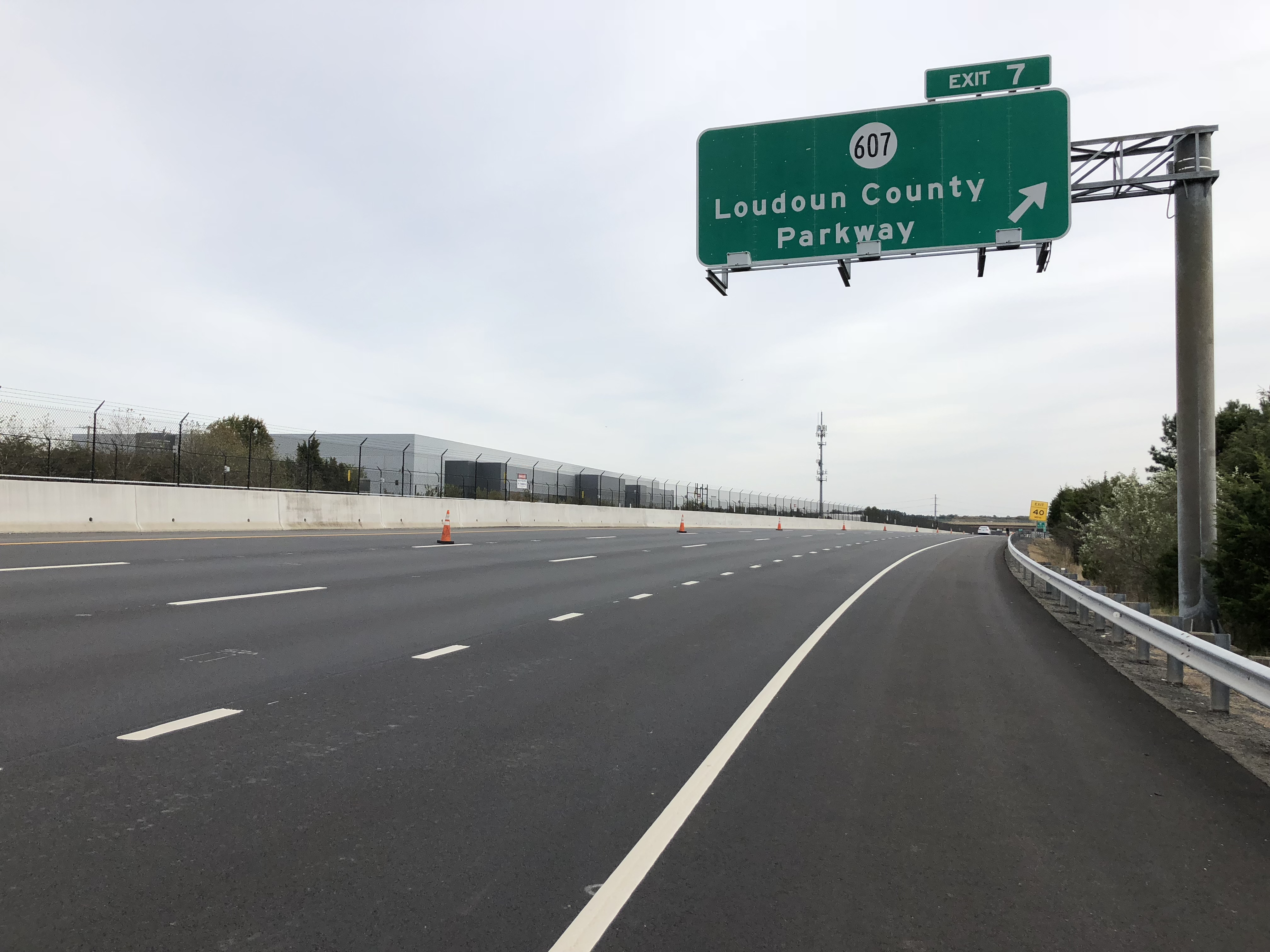 View east along Virginia State Route 267 (Dulles Greenway) at Exit 7 (Virginia State Route 607/Loudoun County Parkway) in Moorefield Station, Loudoun County, Virginia